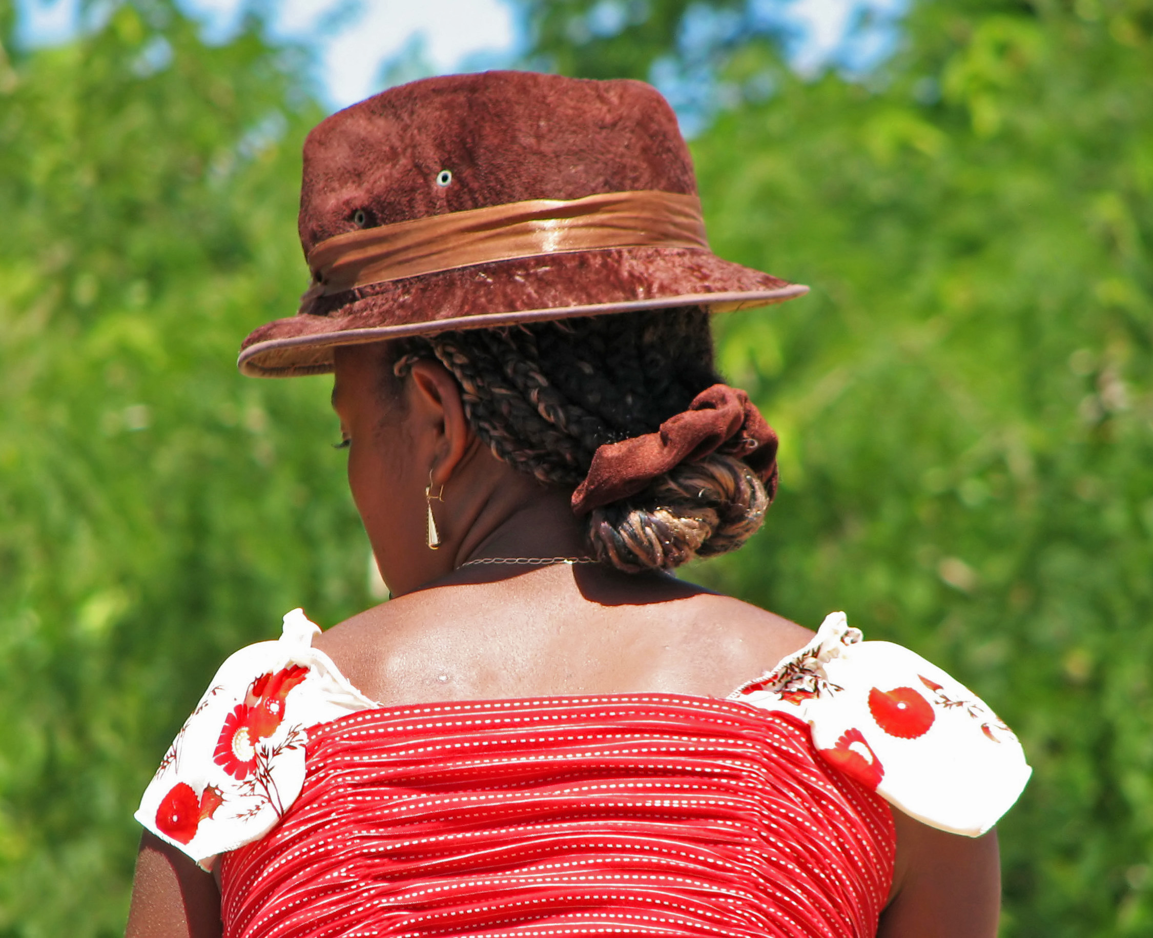 Woman with hat near Toliara, Madagascar